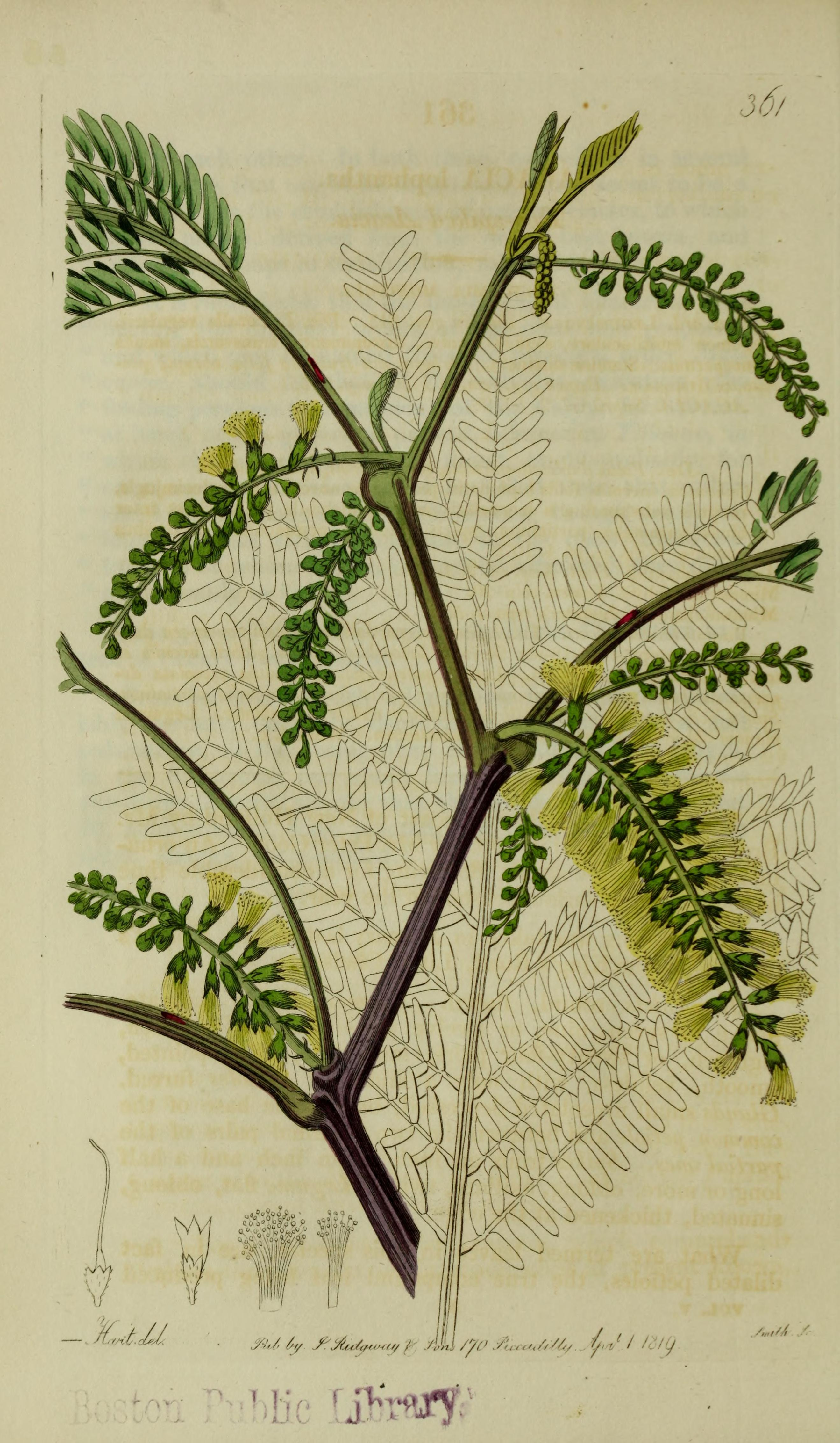 Title: The Botanical register consisting of coloured figures of Year: 1815 (1810s) Authors: Edwards, Sydenham, 1768-1819; Shrewsbury, John Talbot, Earl of, 1791-1852, former owner Subjects: Plants, Ornamental; Plant introduction; Botanical illustration; Botany; Floriculture; Botany Publisher: (London : s. n. ) Text Appearing Before Image: ' Text Appearing After Image: '